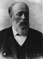 Portrait of Vasily Zinger (1836-1907), Russian mathematician and botanist